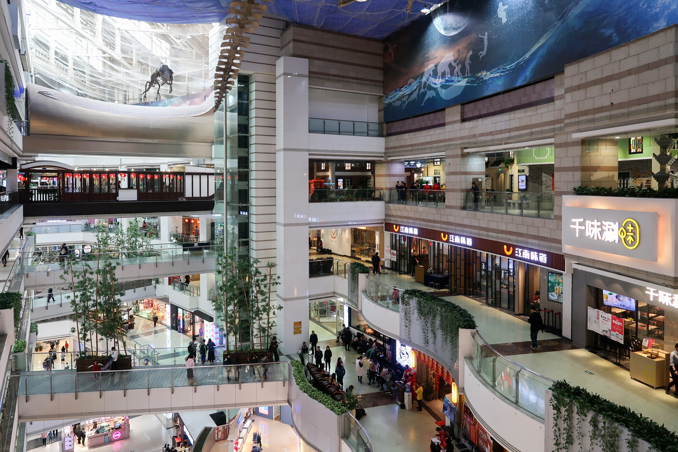 Grandview Mall North Street Void